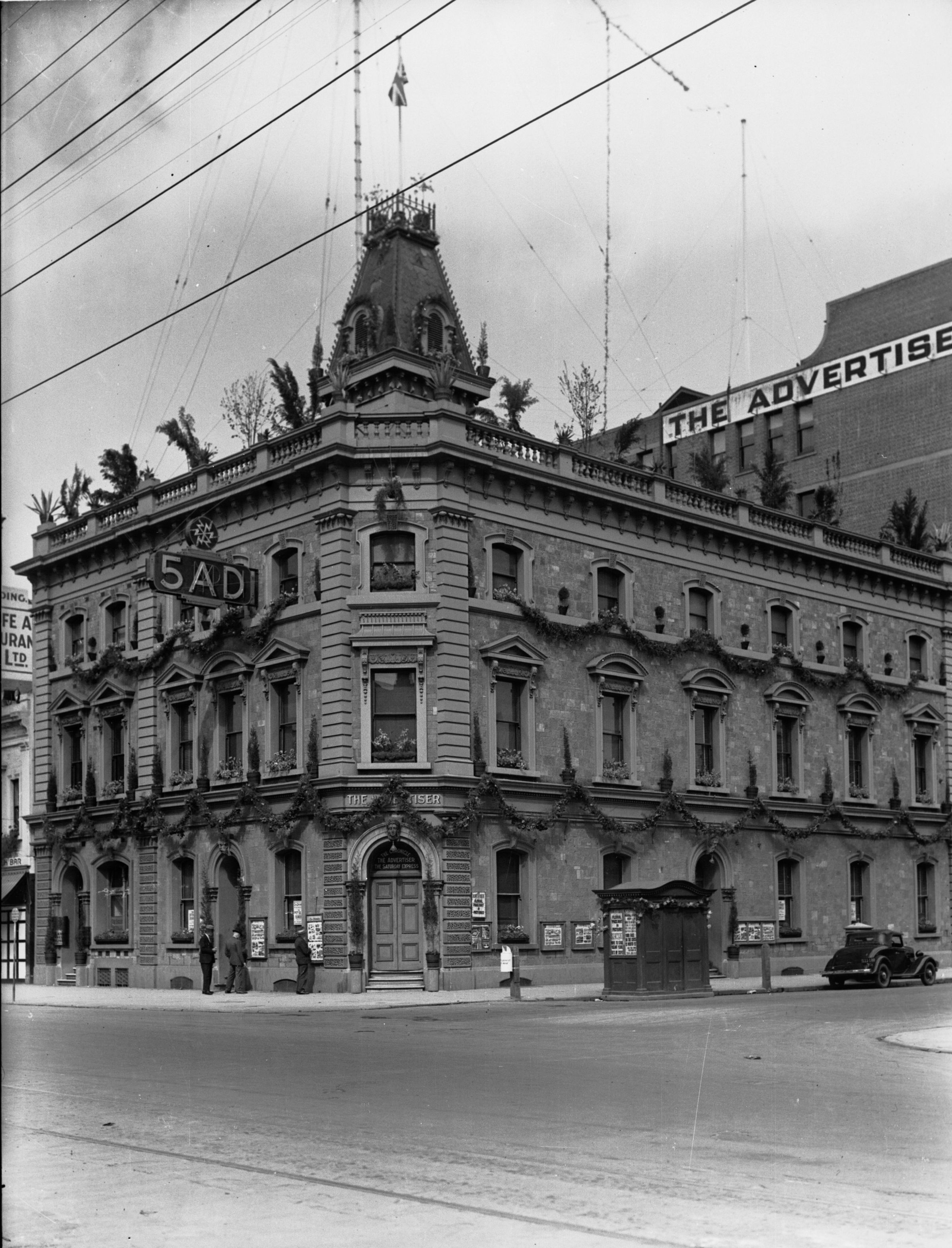 The Advertiser building on King William Street decorated for state centenary, building used also a studio for radio 5AD, automobile parked outside.